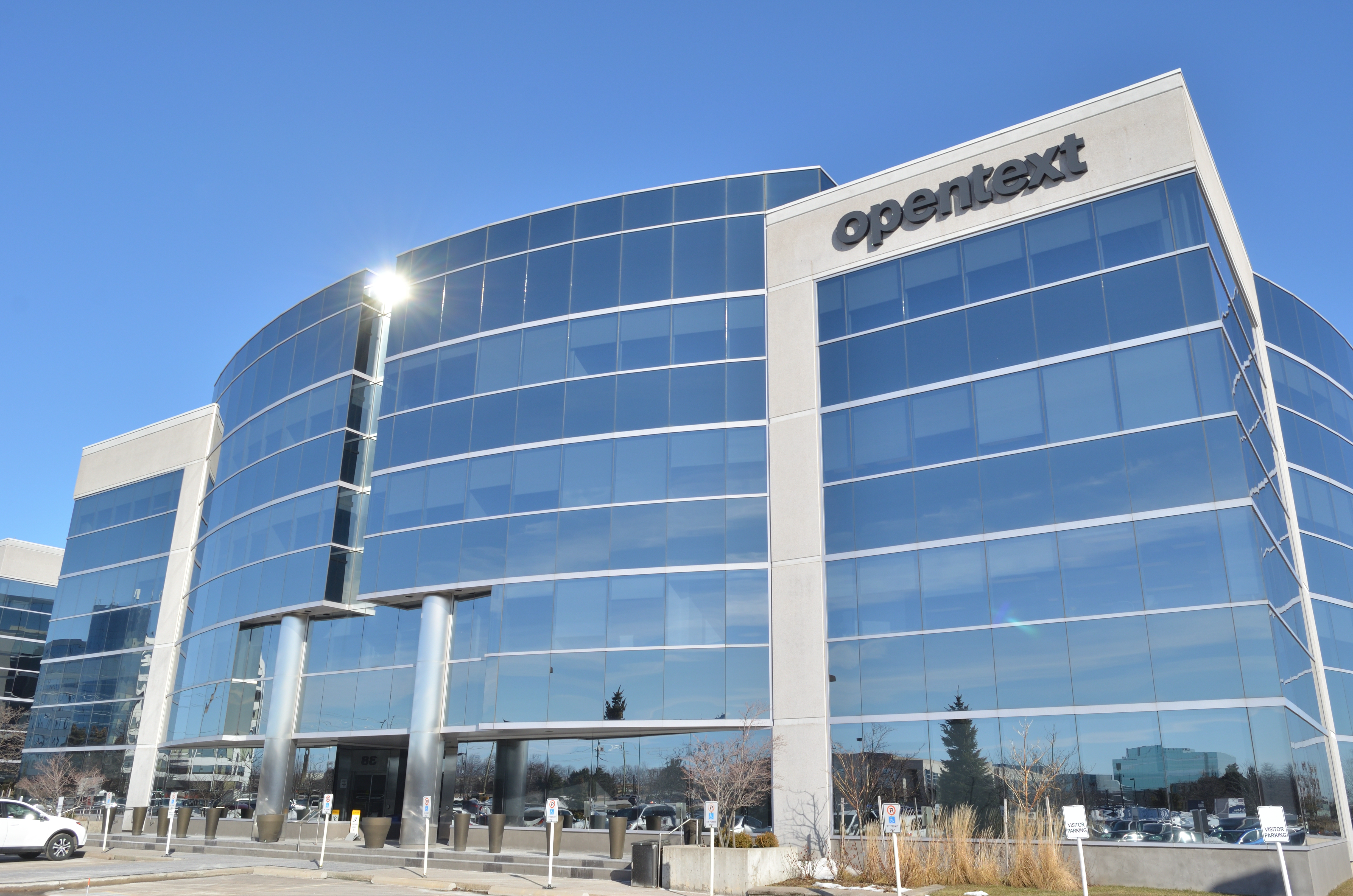 OpenText Office Building (Address: 38 Leek Crescent, Richmond Hill, ON L4B 4N8)